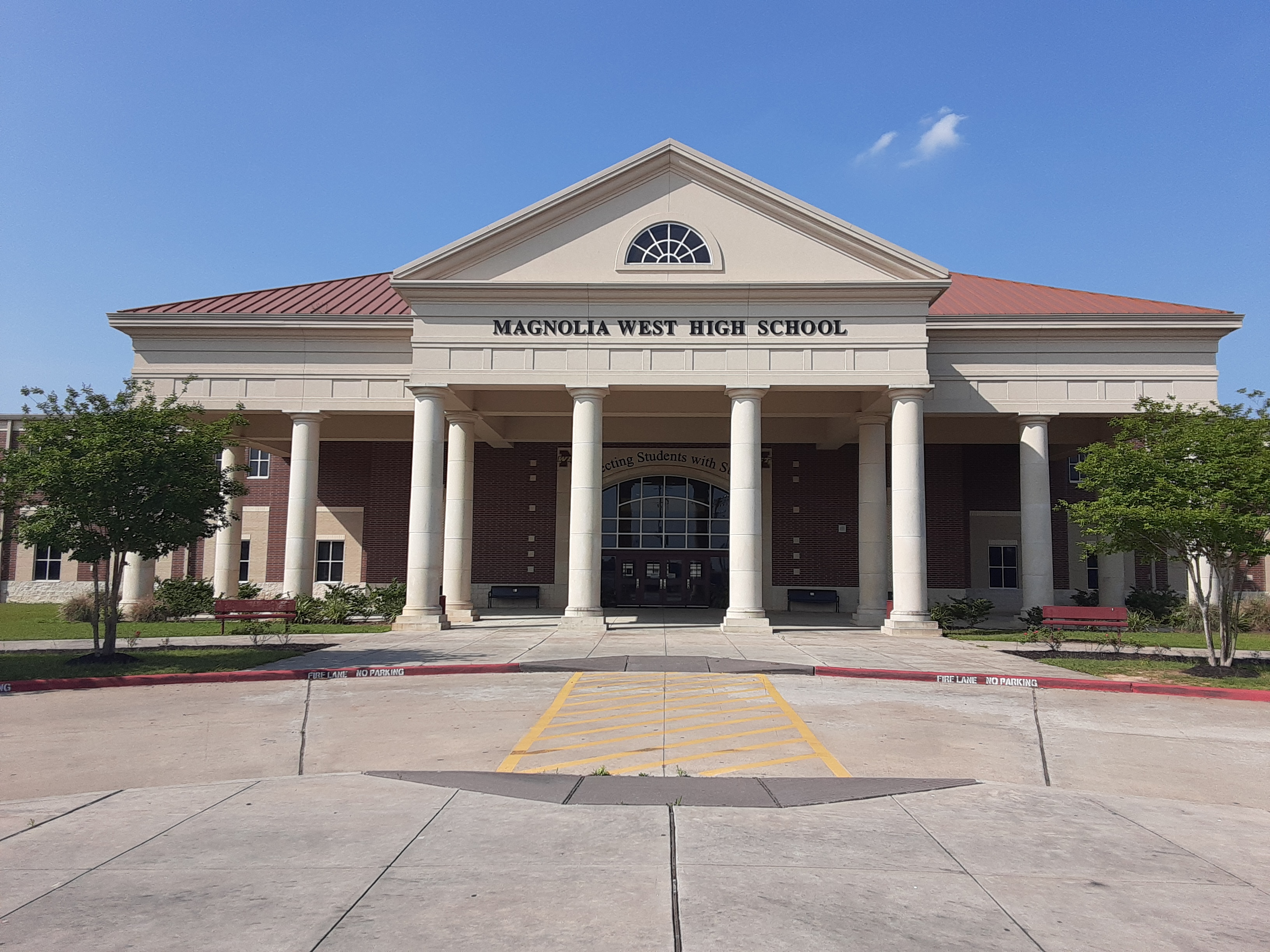 Magnolia West High School, Magnolia Independent School District. Located in unincorporated Montgomery County near Magnolia, Texas.